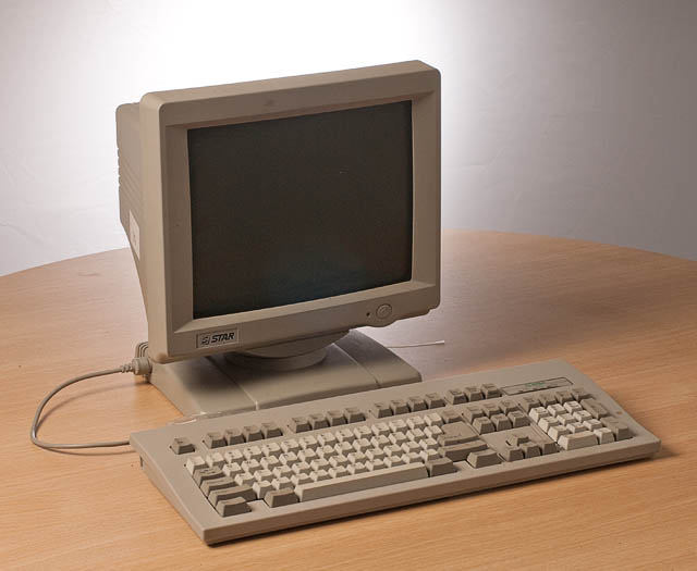 STAR 890G terminal